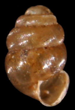 Photo of Vertigo geyeri. Scale in mm. Locality: Austria: Kärnten, Langsee near St. Georgen. Date: 02-06-1995.